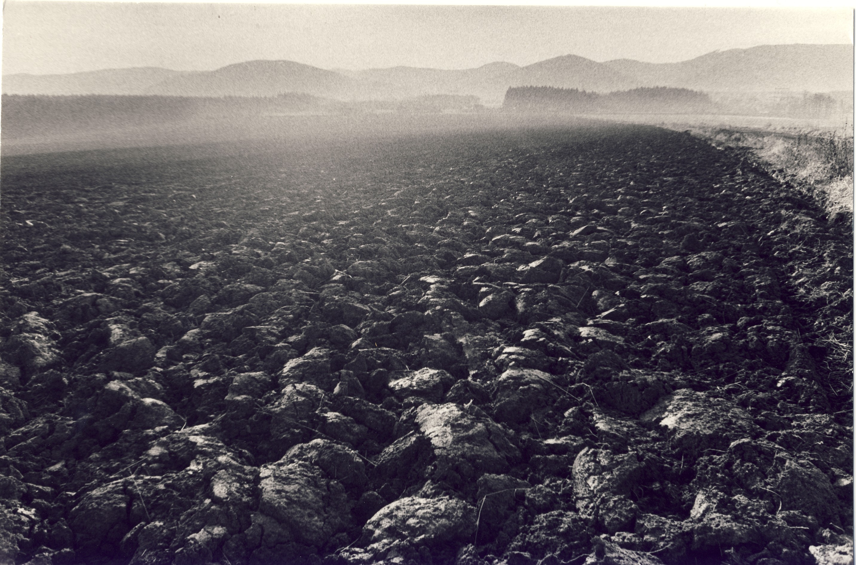 Jan Byrtus, Beskydy 1983